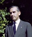 ST-M34-3-61. President John F. Kennedy with President Arturo Frondizi of Argentina and Others in Palm Beach, Florida President John F. Kennedy meets with President of Argentina, Arturo Frondizi, at the home of C. Michael Paul in Palm Beach, Florida. Seated (L-R): Foreign Minister of Argentina, Dr. Miguel Angel Cárcano; President Kennedy; President Frondizi; Argentine Ambassador to the United States, Dr. Emilio Donato del Carril. Standing (L-R): Assistant Secretary of State for Inter-American Affairs, Robert Woodward; Dr. Carlos Ortiz de Rosas and Dr. Oscar Camilión, both from the Argentine foreign office.